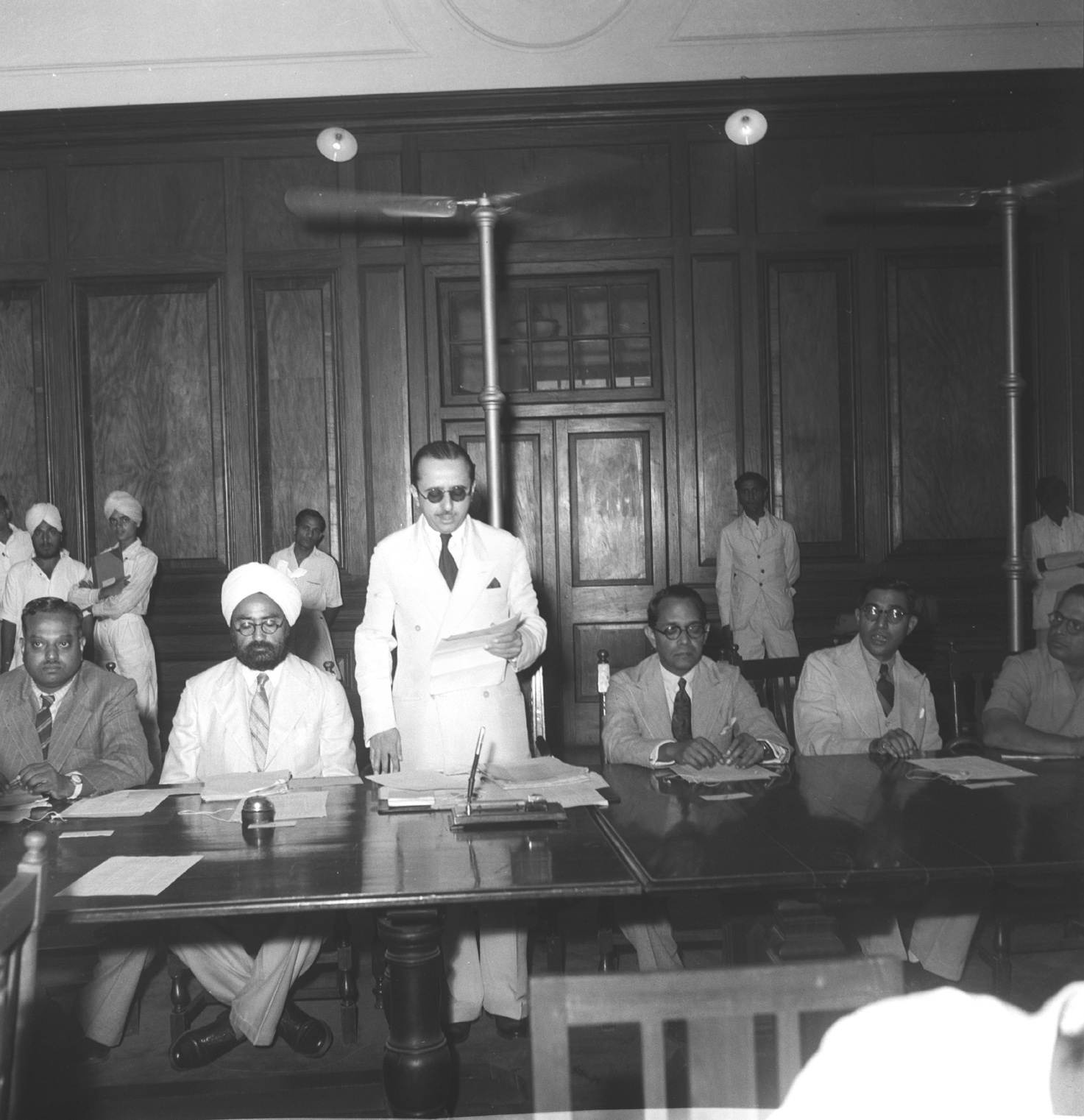 C. H. Bhabha, the then Commerce Minister in the Government of India, inaugurating the meeting of the Indian Oilseeds Committee in New Delhi on October 16,1947.